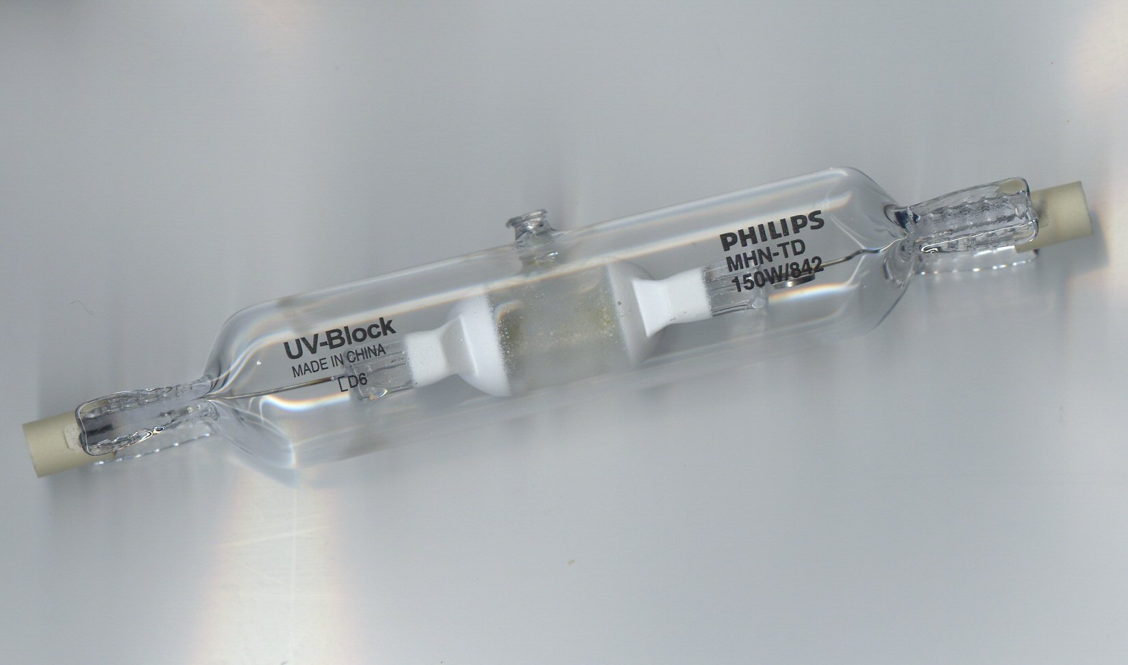 Scan of 150 watt double ended metal halide lamp.